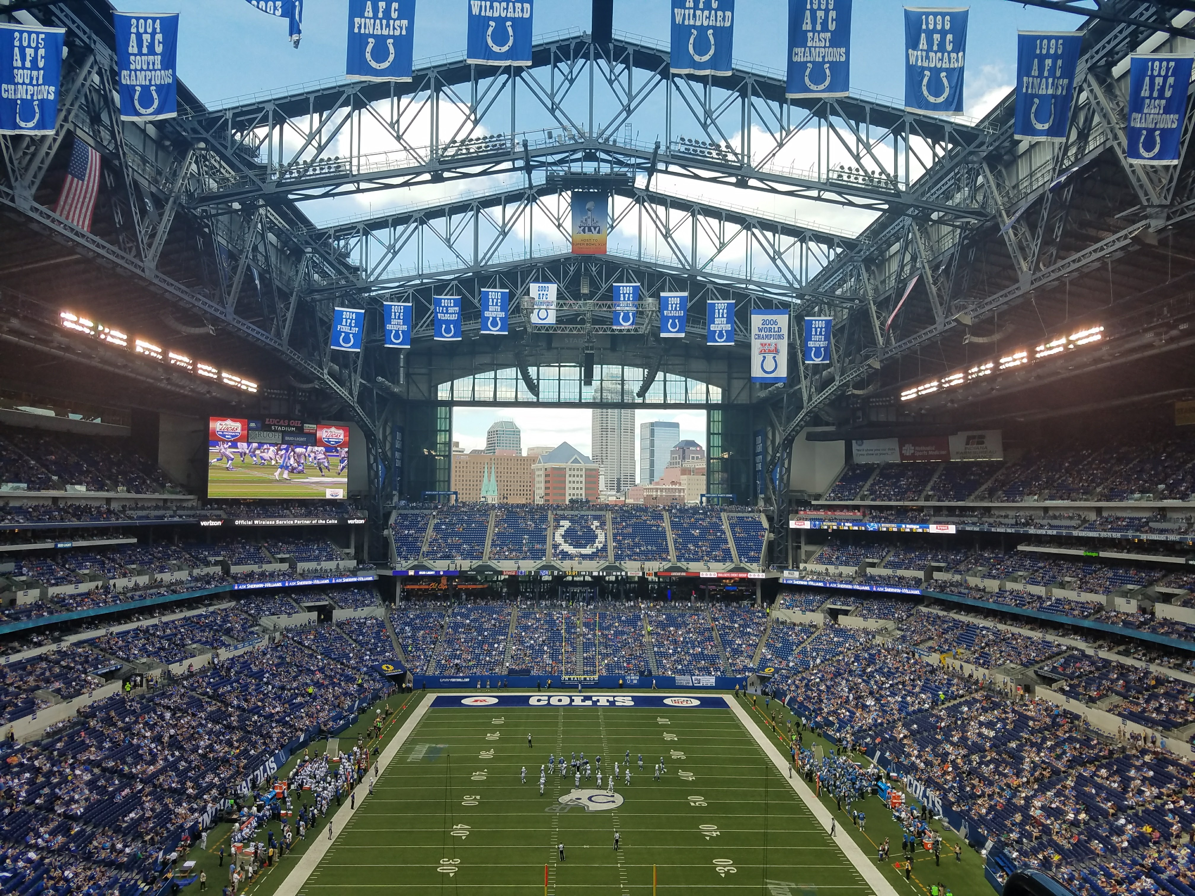 Lucas Oil Stadium during a preseason game between the Indianapolis Colts and the Detroit Lions in 2017.